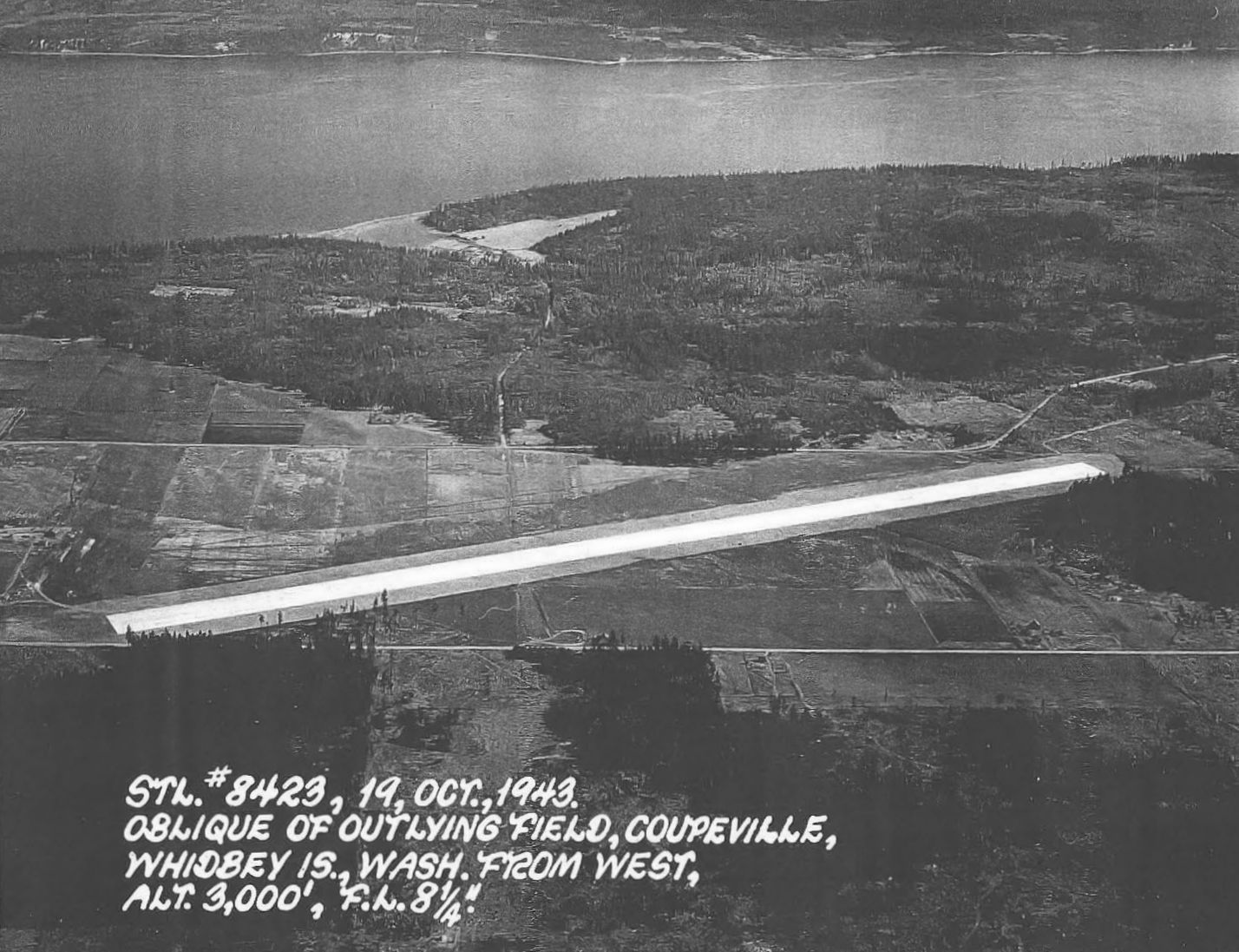 US Navy image, STL 8423 NAS Seattle - taken 19 Oct 1943; aerial oblique view of NOLF Coupeville and surrounding area - taken from the west over Whidbey Island, WA, looking east at Saratoga Passage and Camano Island